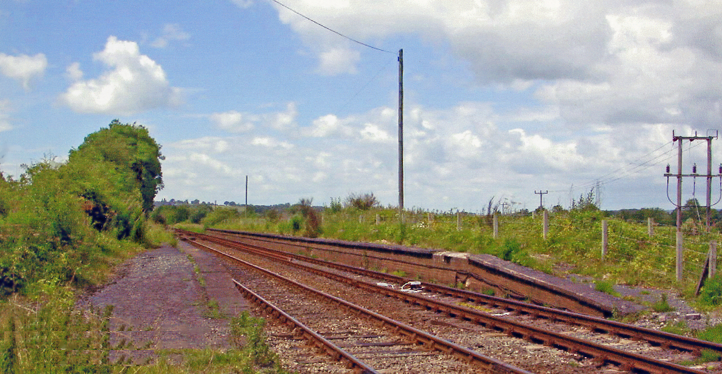 Marchington station, remains 2004. View westward, towards Uttoxeter, Stoke-on-Trent and Crewe: ex-North Stafford Railway main line, Derby - Egginton Junction - Uttoxeter - Stoke - Crewe, which also carried ex-GNR traffic, Egginton Junction - Uttoxeter - (Stafford). This station closed 15/9/58.